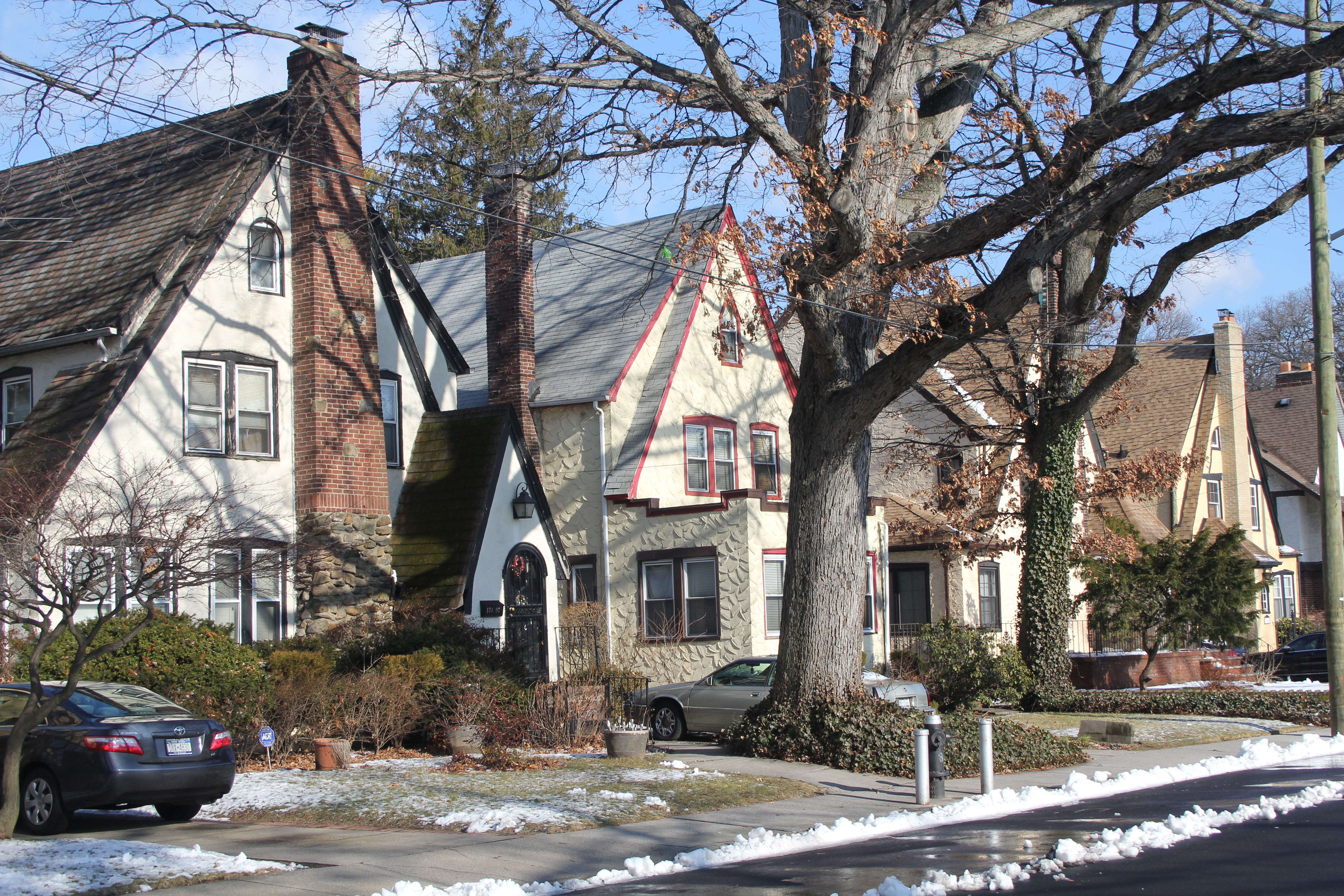 Houses in the Addisleigh Park Historic District in St. Albans, Queens, New York City. These houses are on the north side of Murdock Avenue west of 175th Street. They were built circa 1927 in the Medieval Revival style by architect Fred Burmeister.